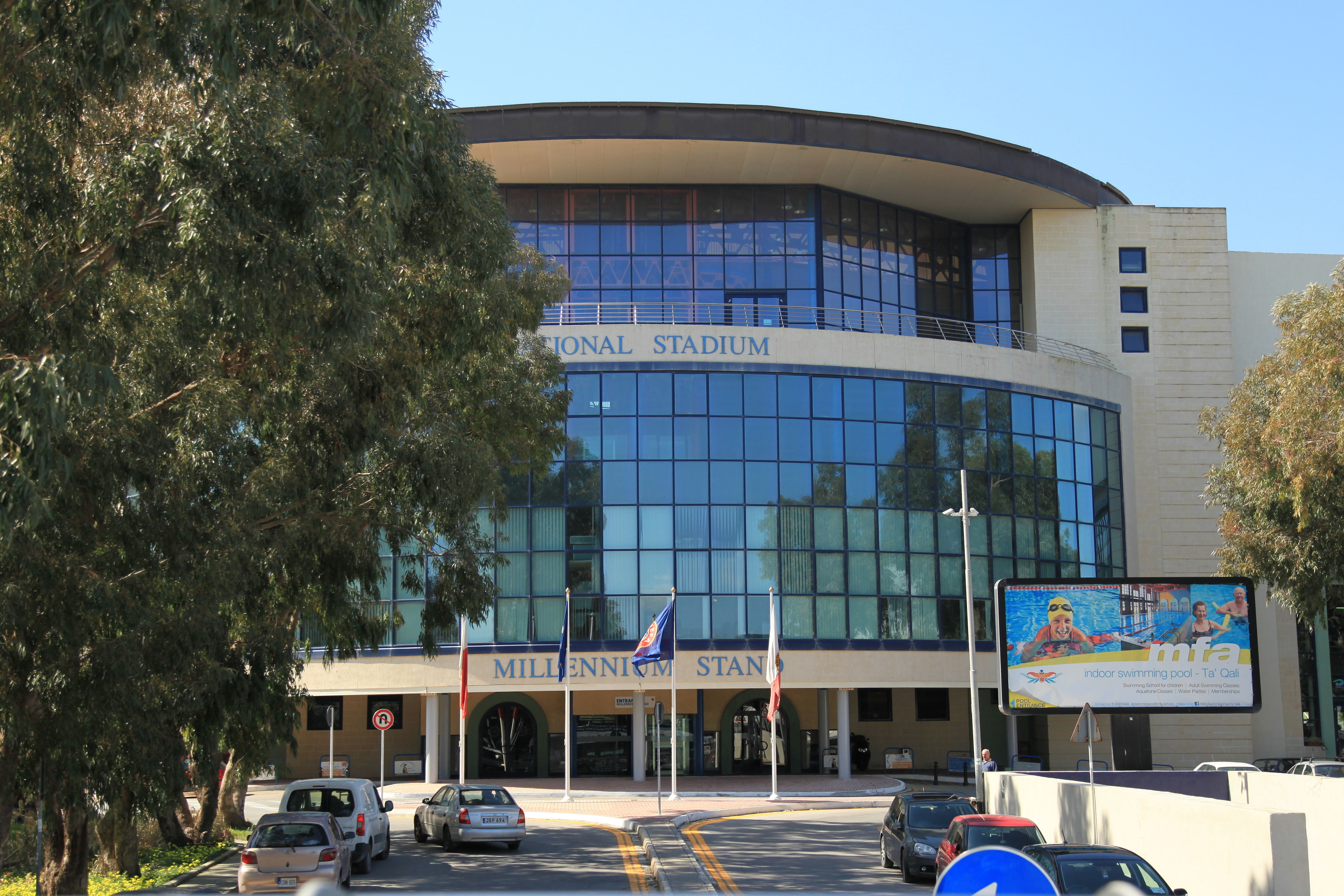 View from a Malta sightseeing north tour bus to the National Stadium at Ta' Qali in Attard, Malta